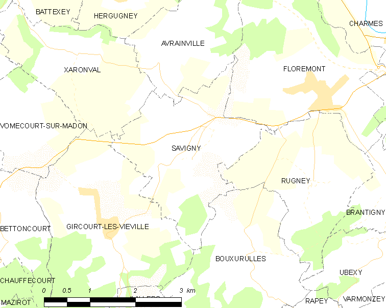 Map of French municipality Savigny